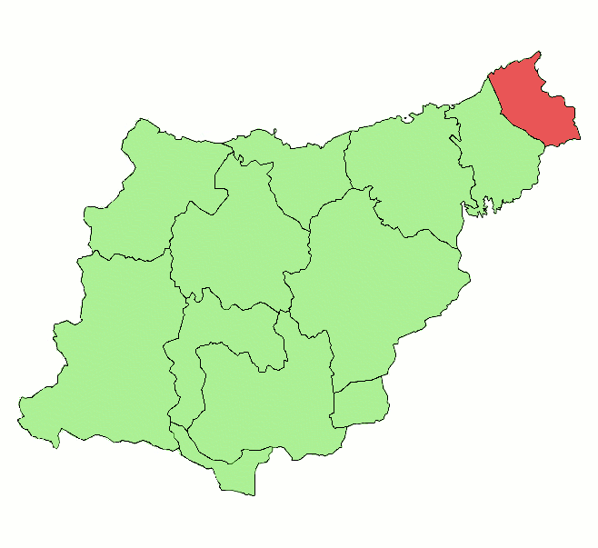 Bidasoaldea region in the province of Gipuzkoa